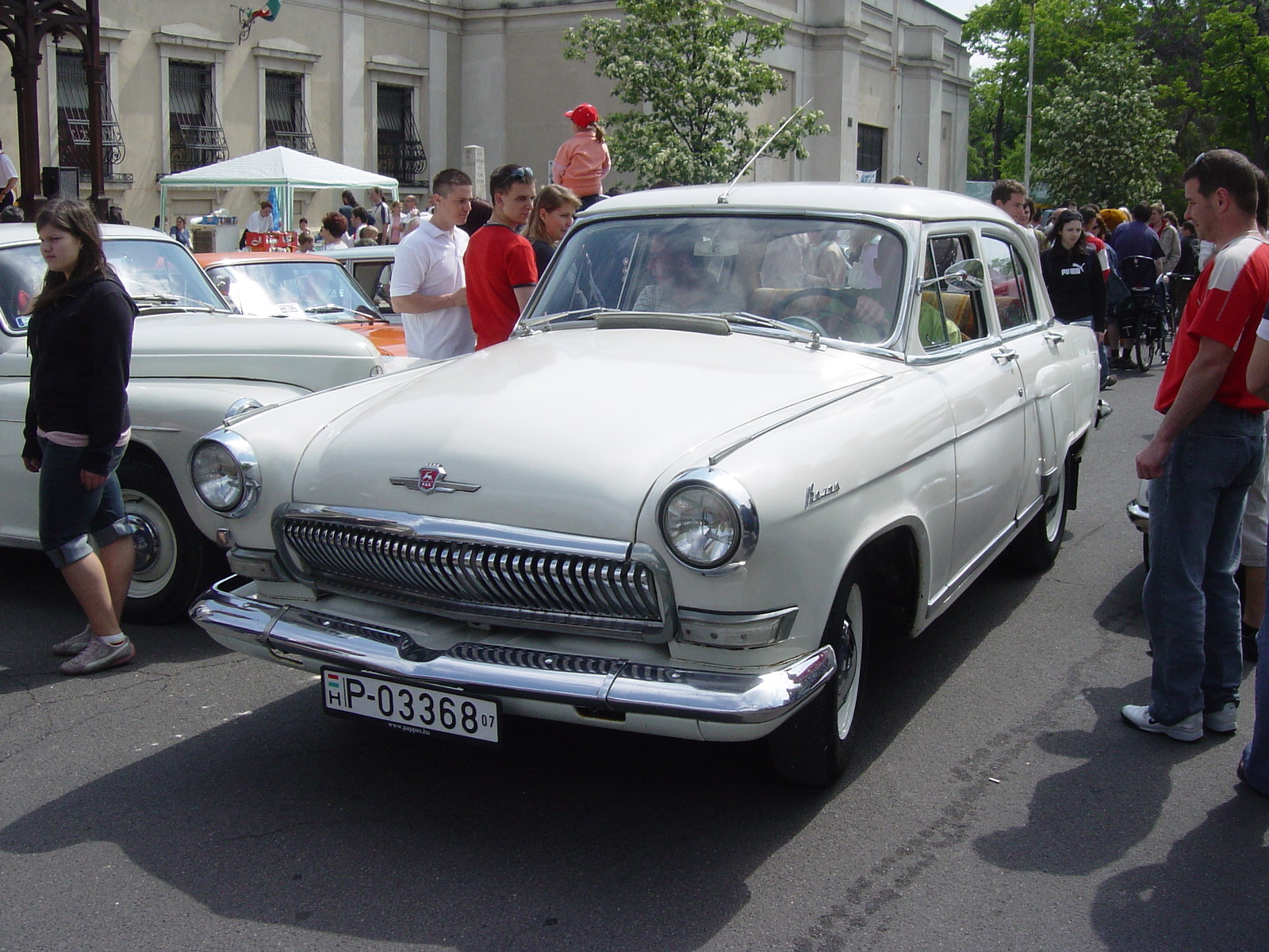 Volga GAZ-M-21, Series Three, produced between 1962 and 1965 — during the Szocialista Jáműipar Gyöngyszemei 2008.